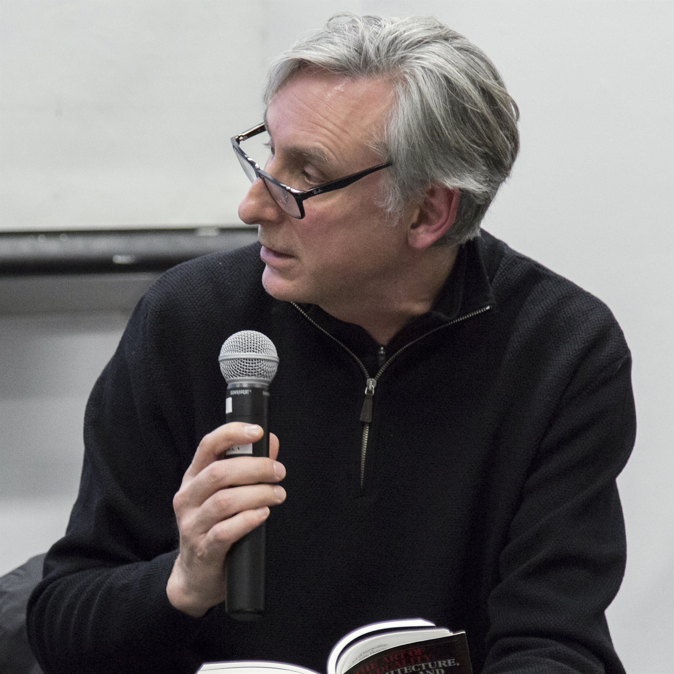 Reinhold Martin at "The Art of inequality" event at Columbia GSAPP, January 2016